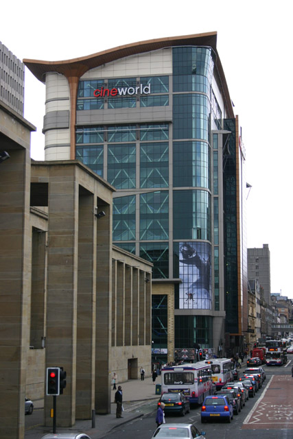 Cine World